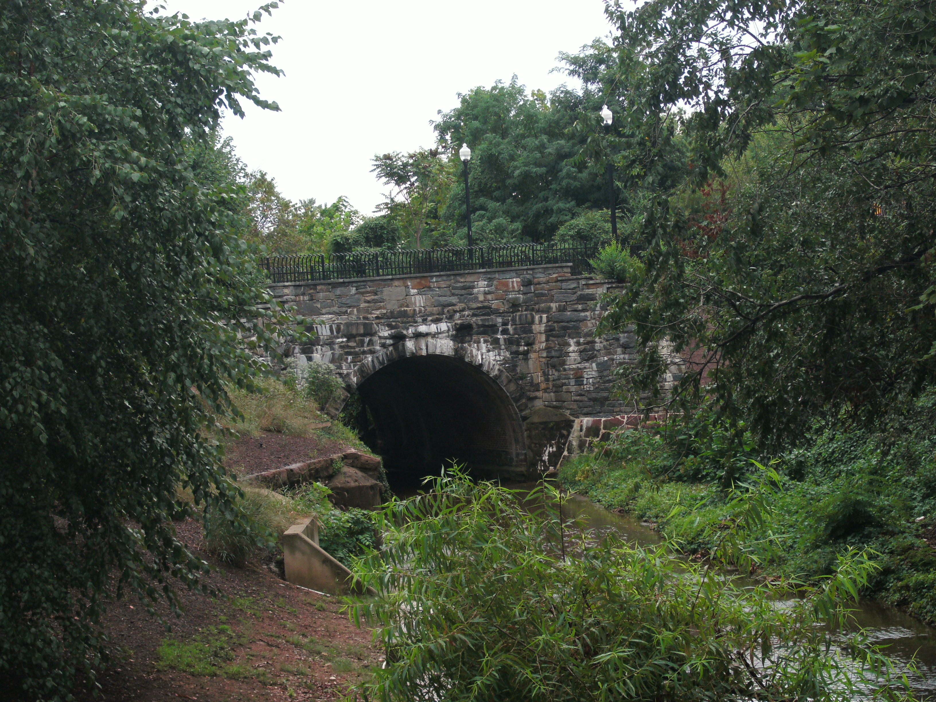 Image taken by me for Wikipedia